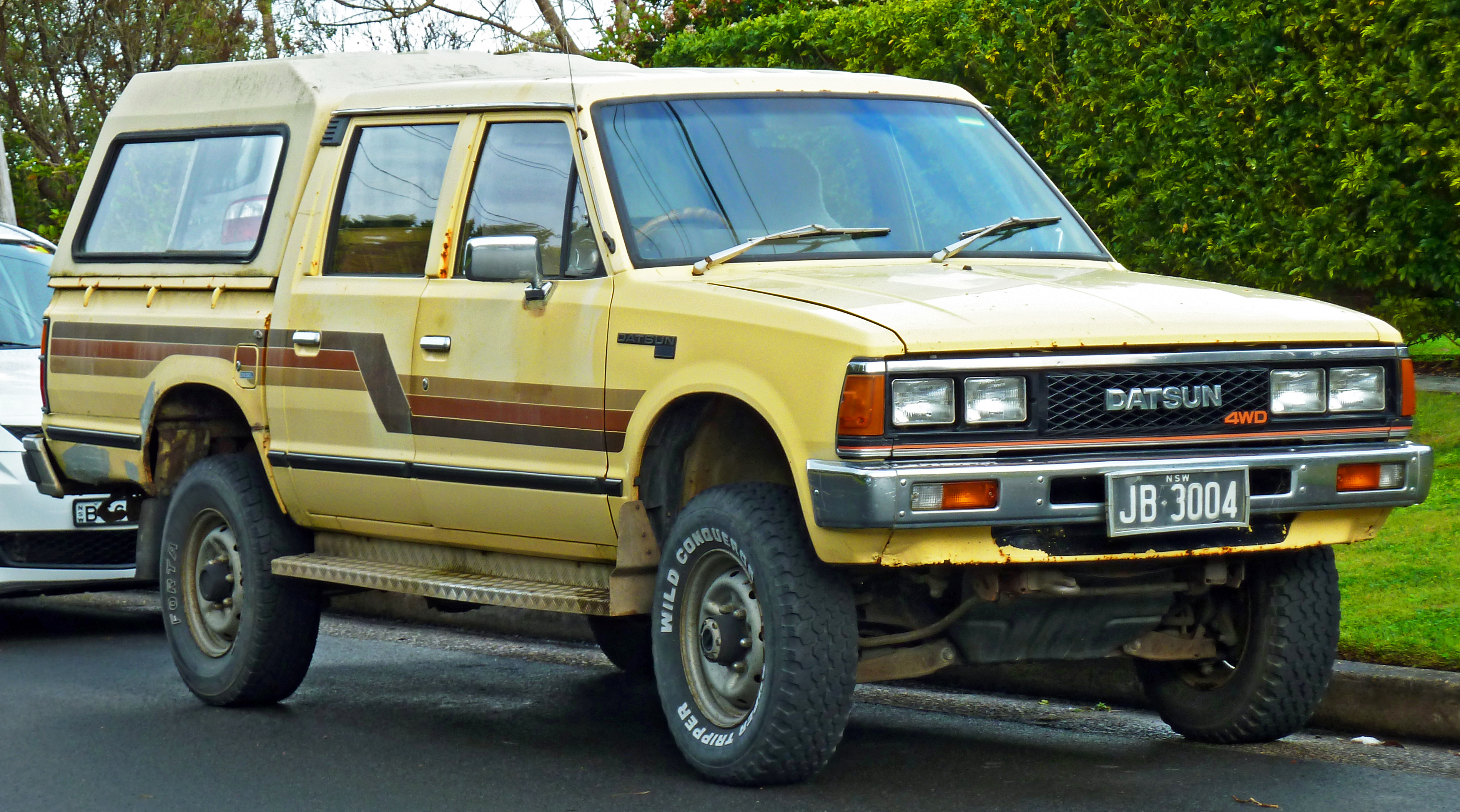 1984 Datsun 720 4WD 4-door utility. Photographed in Castle Cove, New South Wales, Australia.